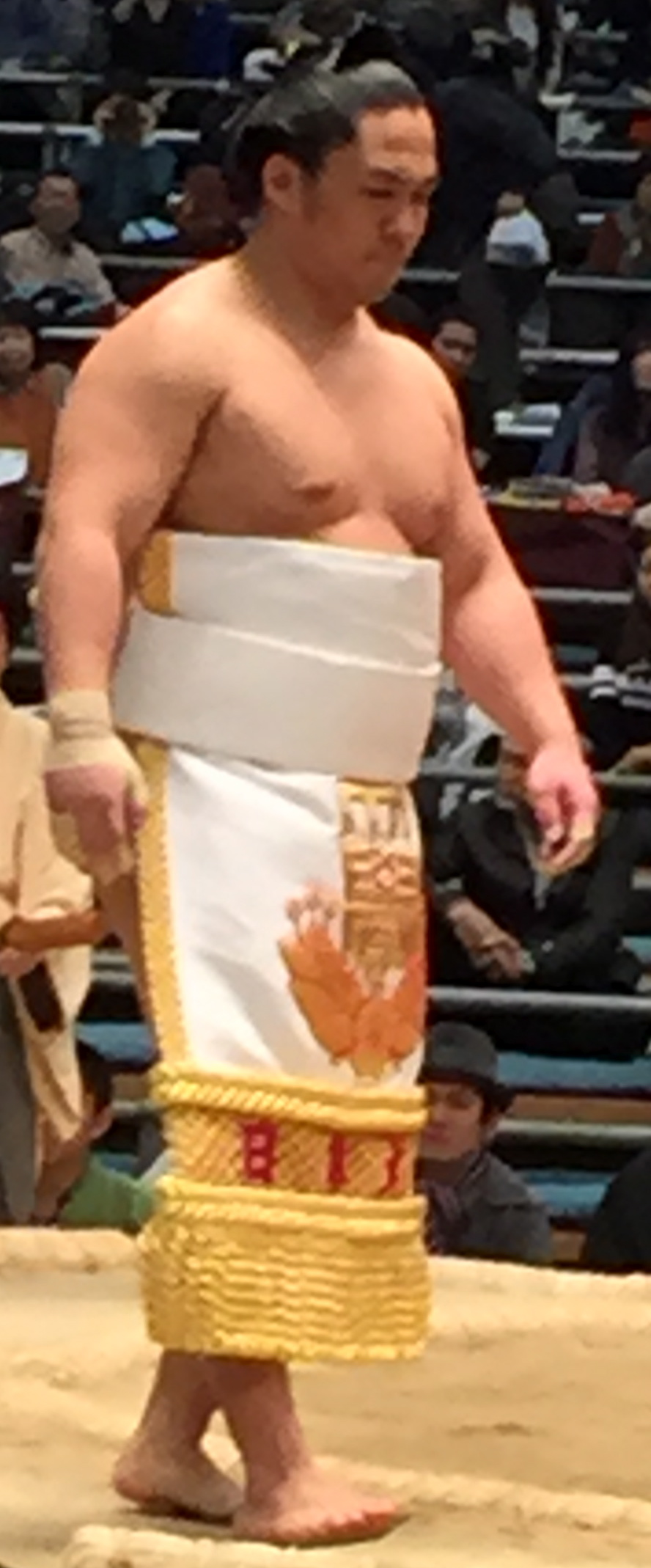 Taken at Osaka tournament 2015